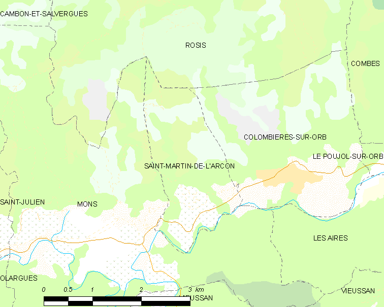 Map commune FR insee code 34273.png - Saint-Martin-de-l'Arçon